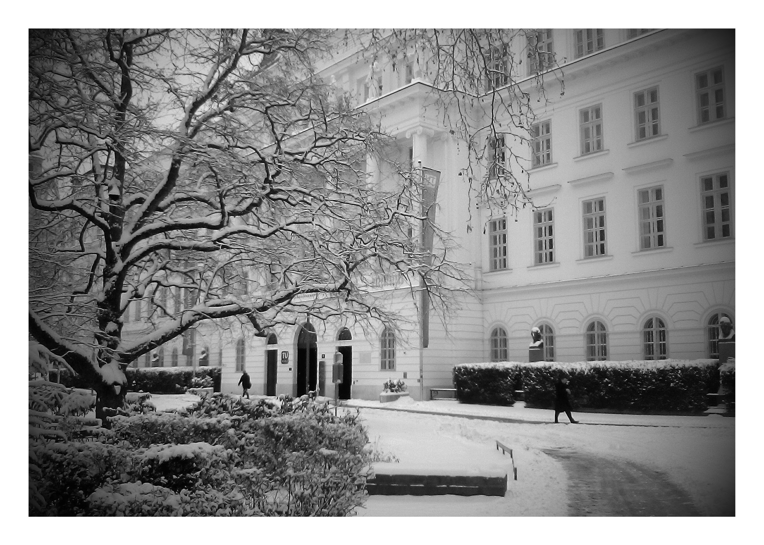 TU Wien from Karlsplatz